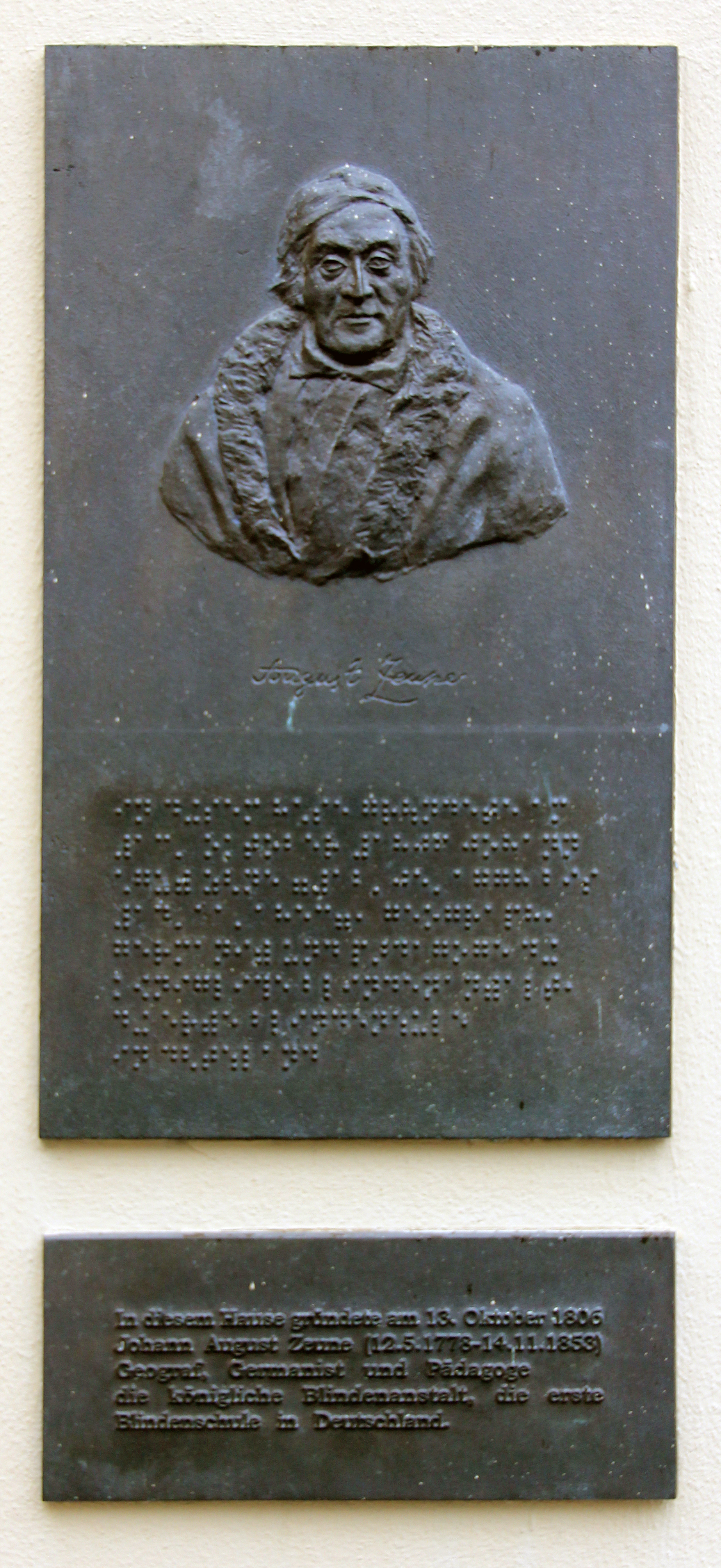 Memorial plaque, Johann August Zeune, Gipsstraße 11, Berlin-Mitte, Deutschland